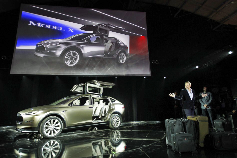 Tesla Model X concept unveiled in Hawthorne California